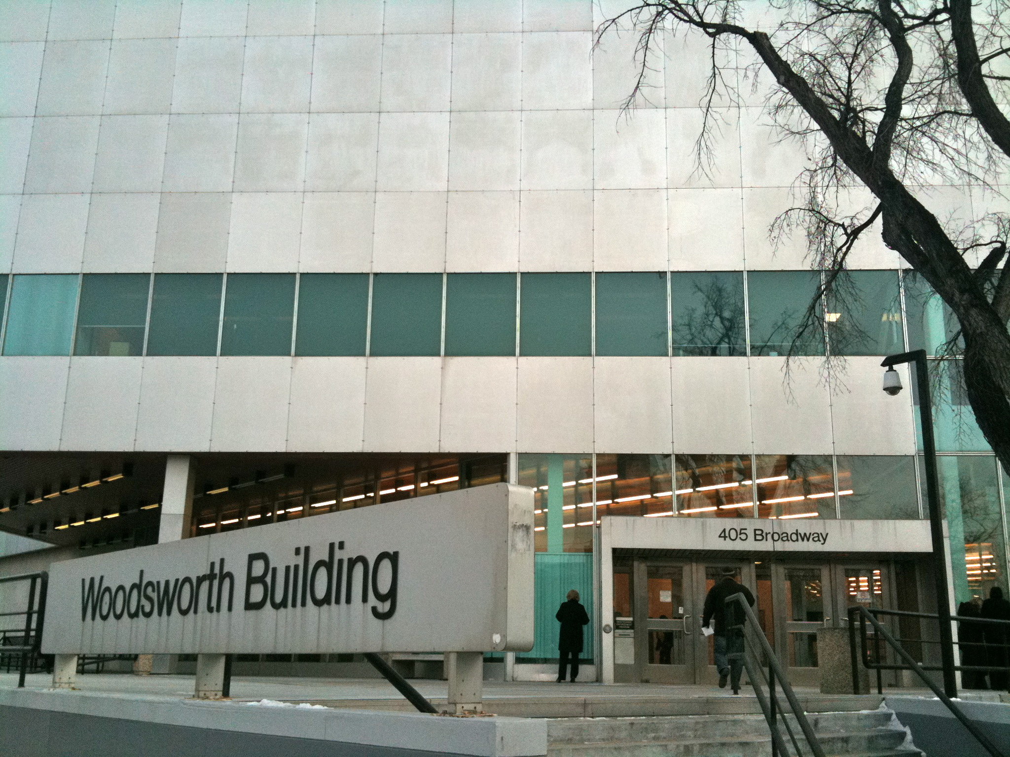 Woodsworth Building, 405 Broadway